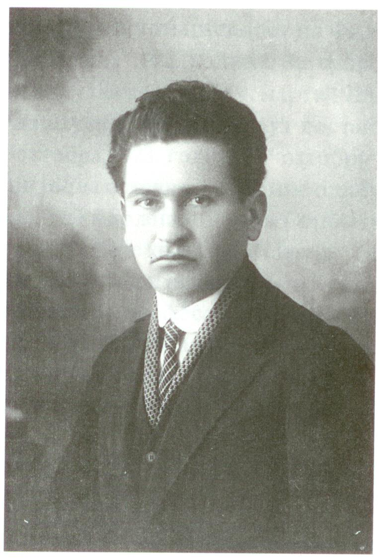 Portrait Zivko Jeftic